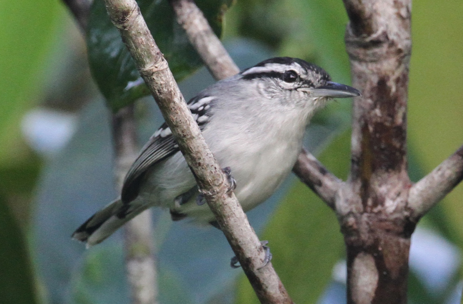 Aripuanã antwren at Machadinho d'Oeste - Rondônia - Brazil